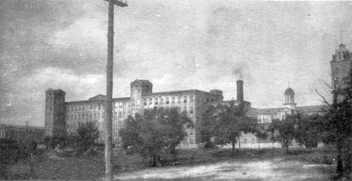 Mississippi Mills textile complex, Wesson, Mississippi, USA